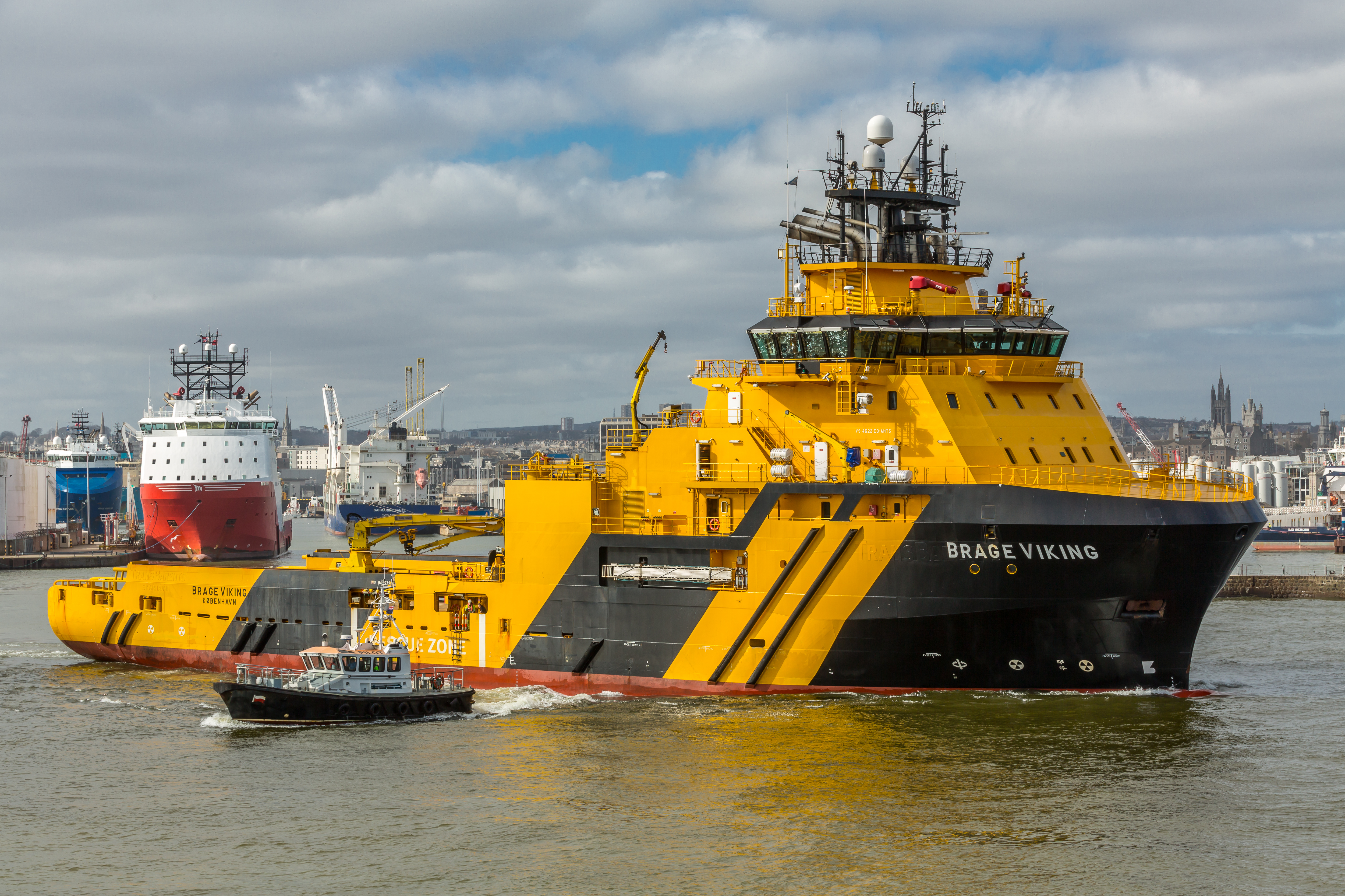 IMO: 9475791 MMSI: 219396000 Call Sign: OUVV2 Flag: Denmark (DK) AIS Type: Tug Gross Tonnage: 6279 Deadweight: 4352 t Length × Breadth: 85.2m × 22.84m Year Built: 2012 Status: Active